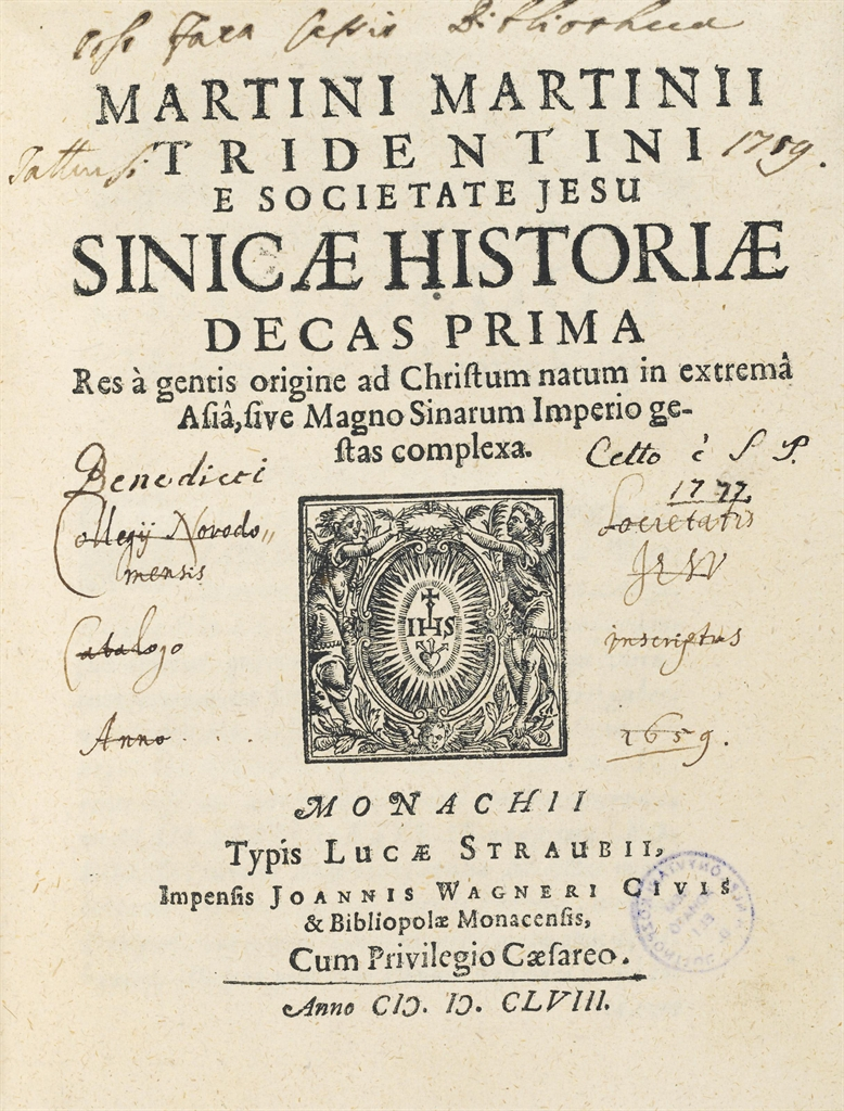 Titlepage of Sinicae Historiae by Martino Martini